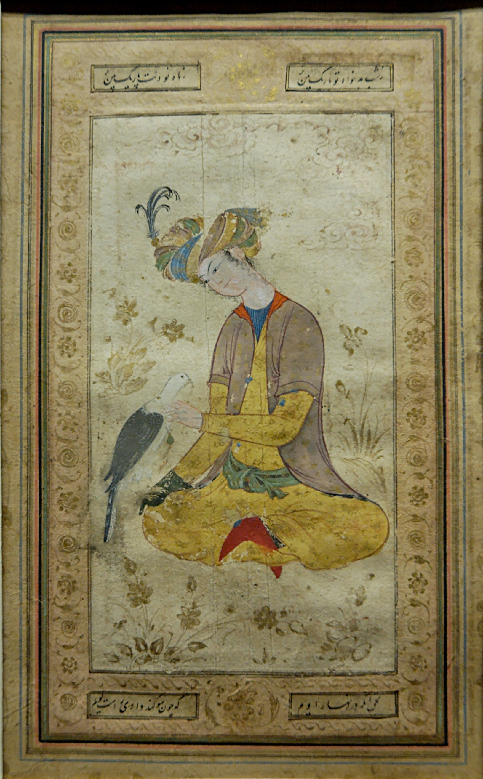 Hunter stroking his hawk. Ink, gouache and gold on cardboard. Iran, Isfahan, early 17th century.